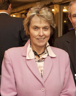 Anne McIntosh MP at the All-Party Parliamentary Gardening & Horticulture Group meeting - November 2011